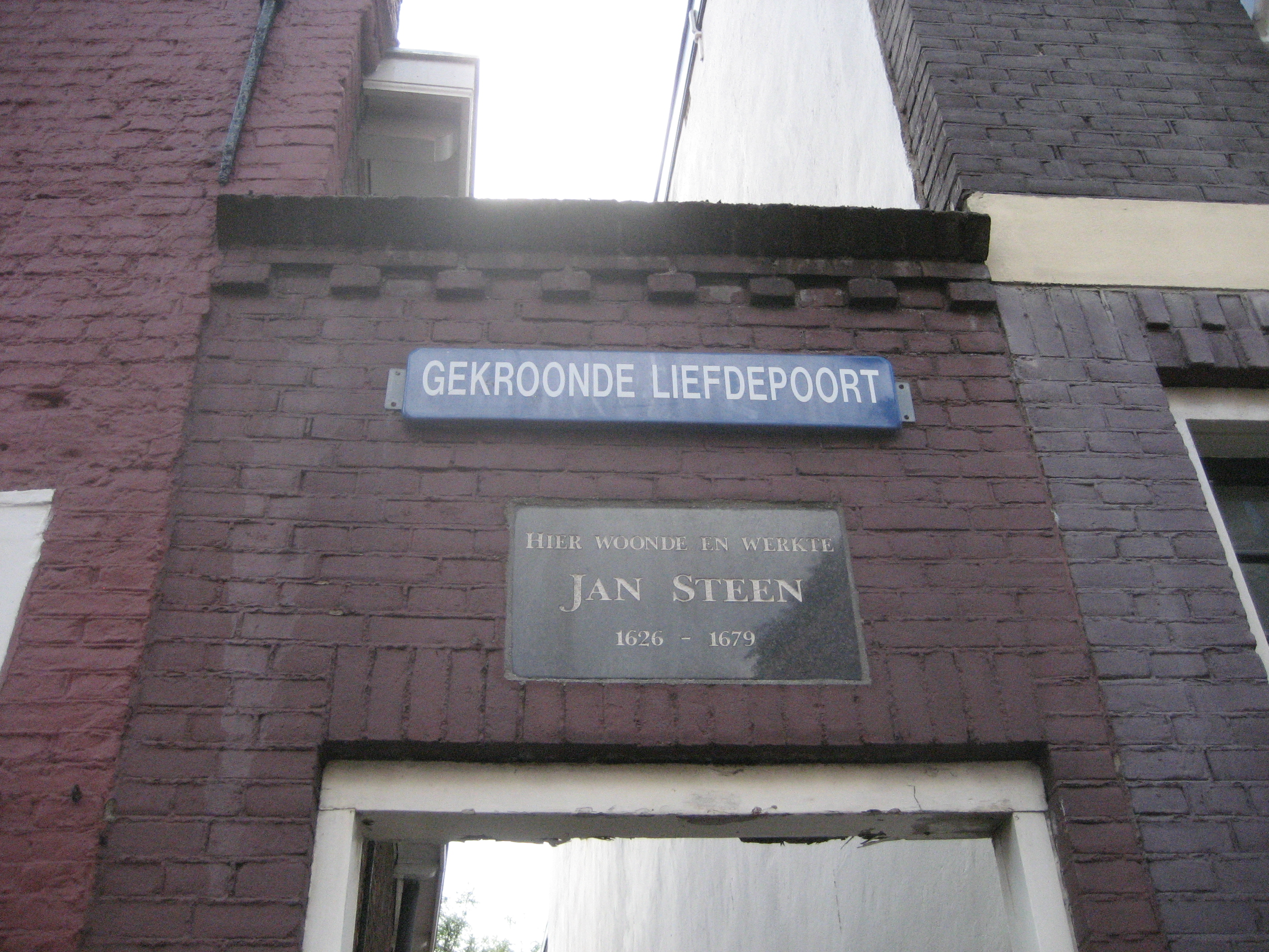 Gekroonde Liefdepoort, Leiden (the Netherlands). (Corner Langebrug 91). Text reads "Hier woonde en werkt Jan Steen 1626-1679" ("Jan Steen worked and lived here - 1626-1679")